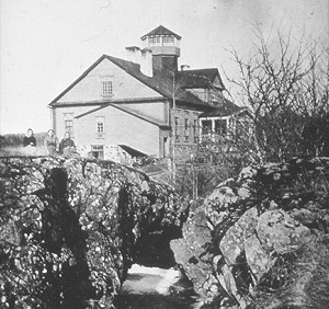 Finland's first iron mine, the Ojamo iron mine in the front, Ojamo mansion in the background